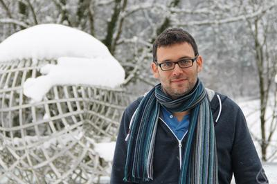 Picture of Benjamin Schlein